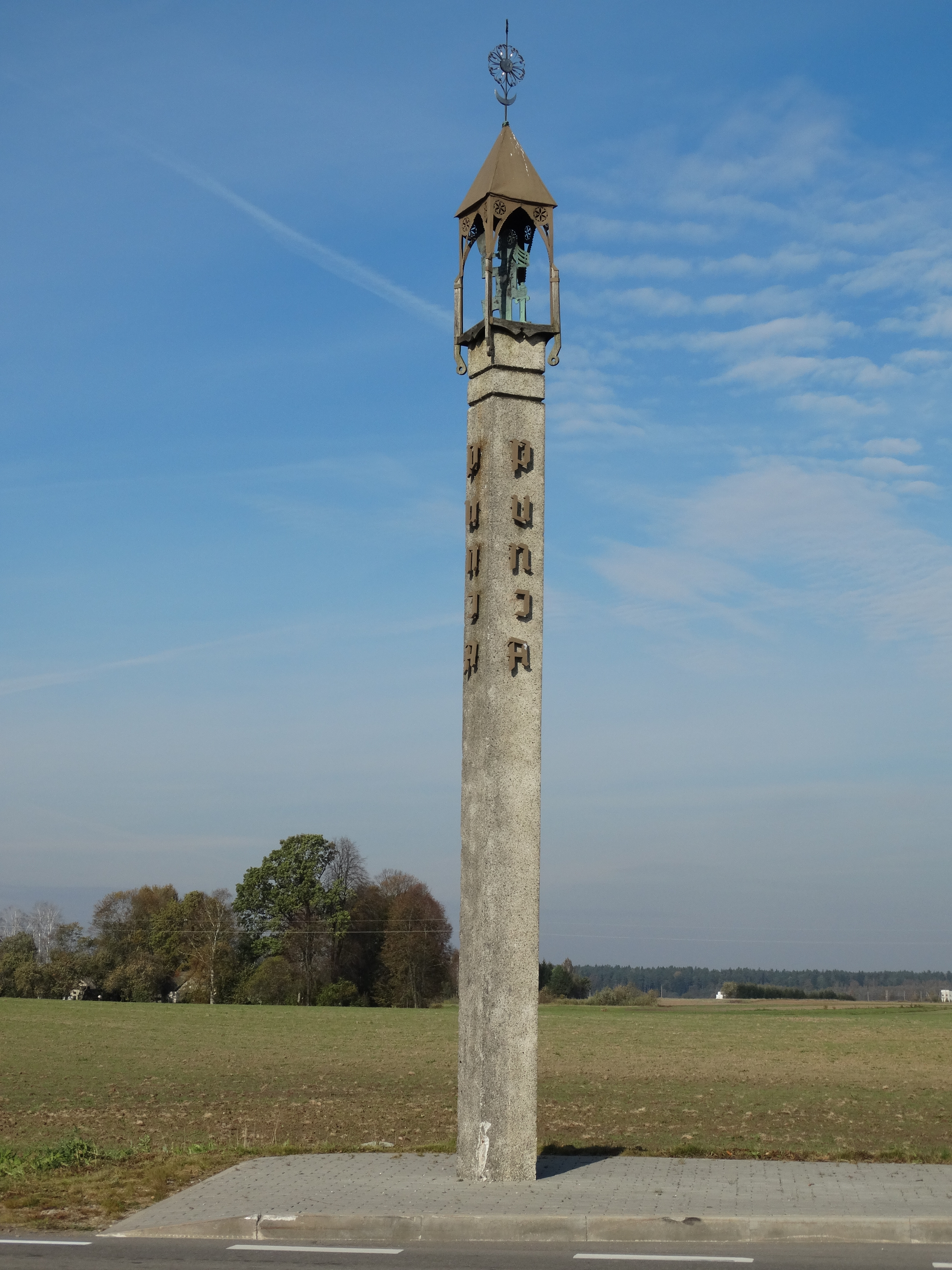 Punia, Alytus district, Lithuania